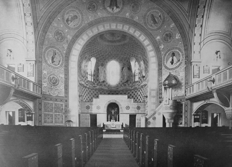 Plauen (Vogtland), interior view of Marcus the Evangelist Church facing north.